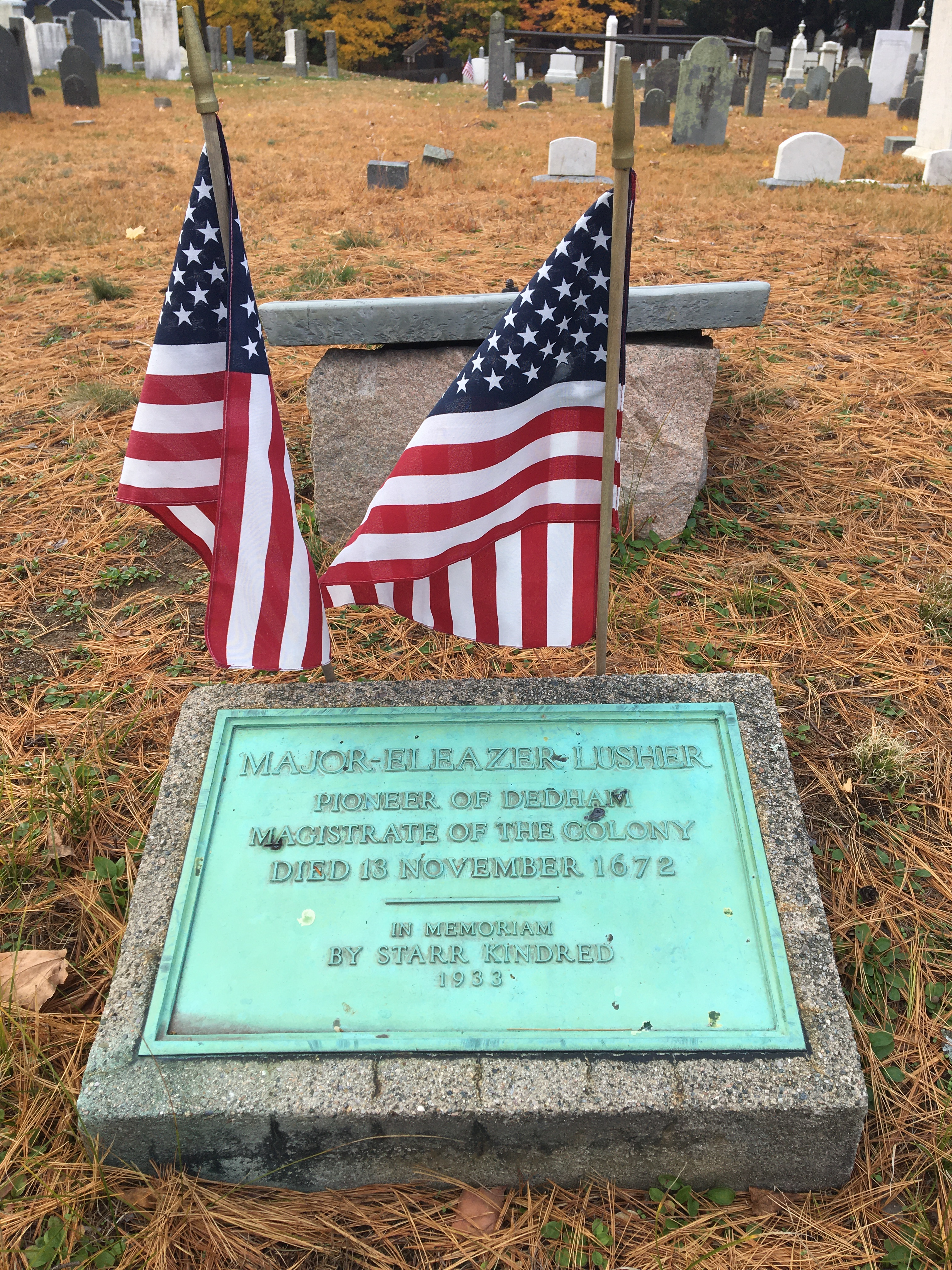 The tombstone of Eleazer Lusher at Old Village Cemetery